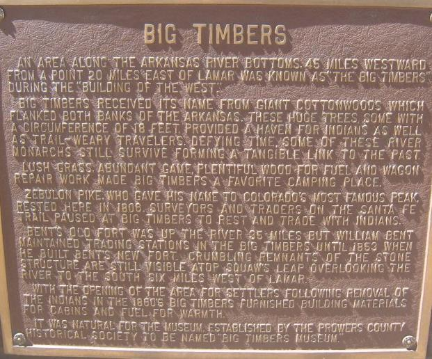 A photograph of Prowers County Historical Society plaque describing history of the Big Timbers region.